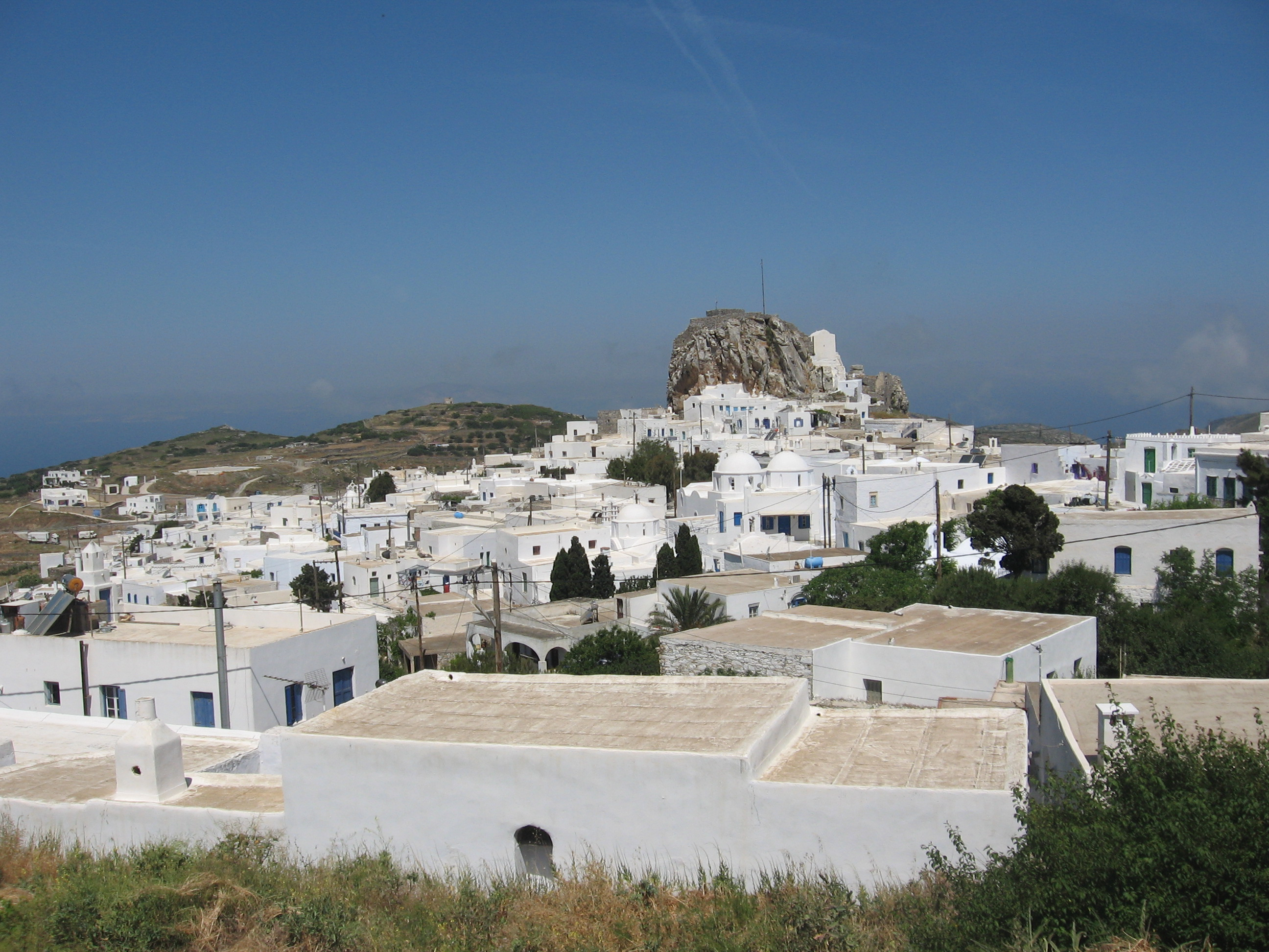 Chora, capital of Amorgos island, with the fortress